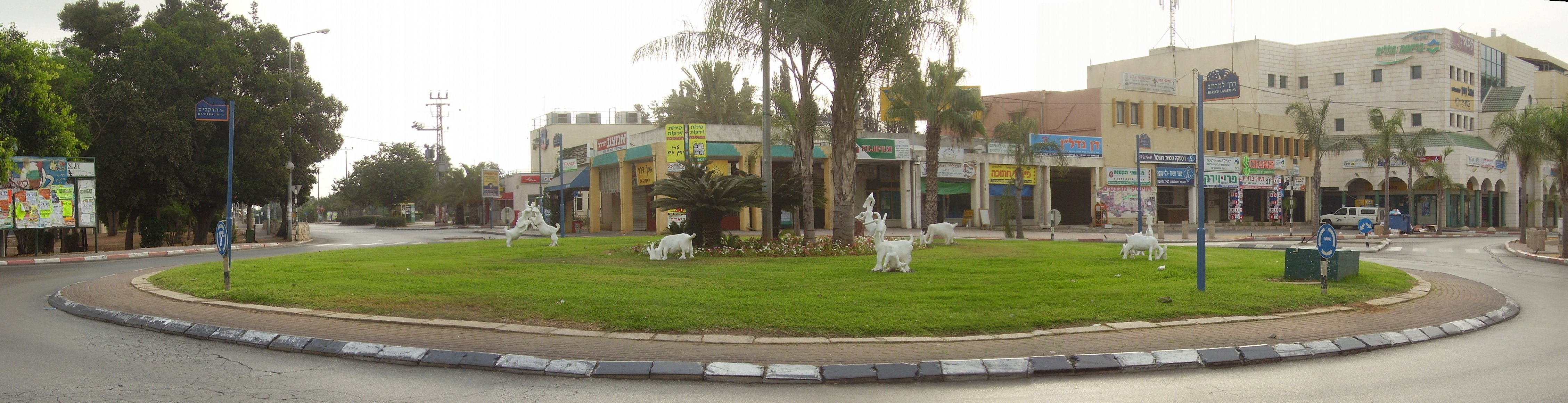 Goat sculptures at "HaNassi" circle at the center of Pardes Hanna, Israel